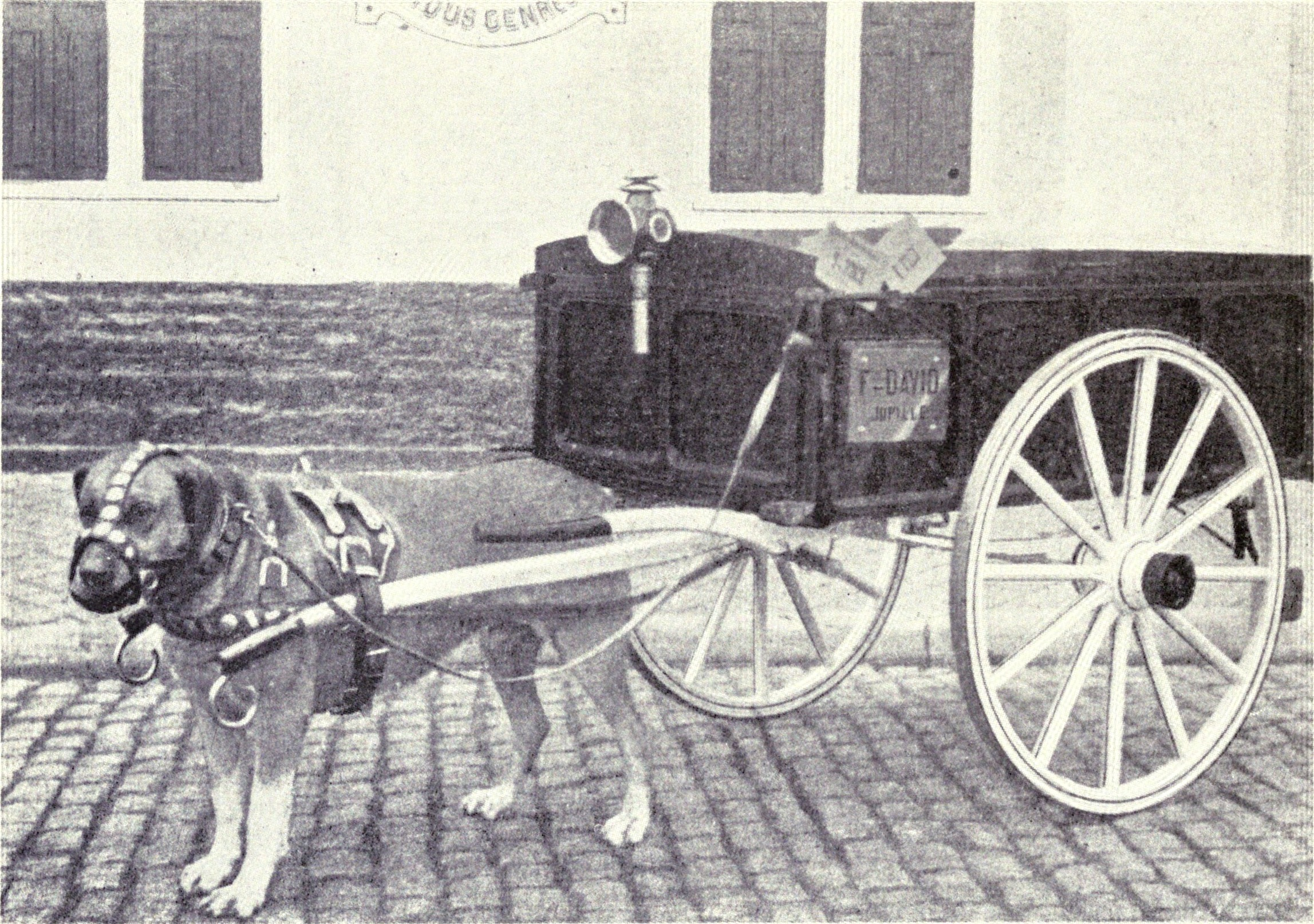 Belgian Draft Dog or Belgian Mastiff (Chien de trait belge). Draught Dog from 1915."This is more or less of a nondescript variety, but he is worthy of a place in the sun by reason of the inestimable service he renders to his master or misttess. Daily he may be seen in Belgium and Holland drawing the carts purveying milk, butter, vegetables and other similar household necessities. He varies in height from about 24 in. to 32 in. and weighs around 100 Ibs. Fawns and brindles are the most common colors. In general appearance he is a cobbily-built strong dog capable of great endurance. Naturally he must be strongly 'made in back and loins, well boned in legs and with feet well padded. The tail is generally docked to about three inches. Chapters dealing with other purposes to which dogs are put will be found in other parts of this work."